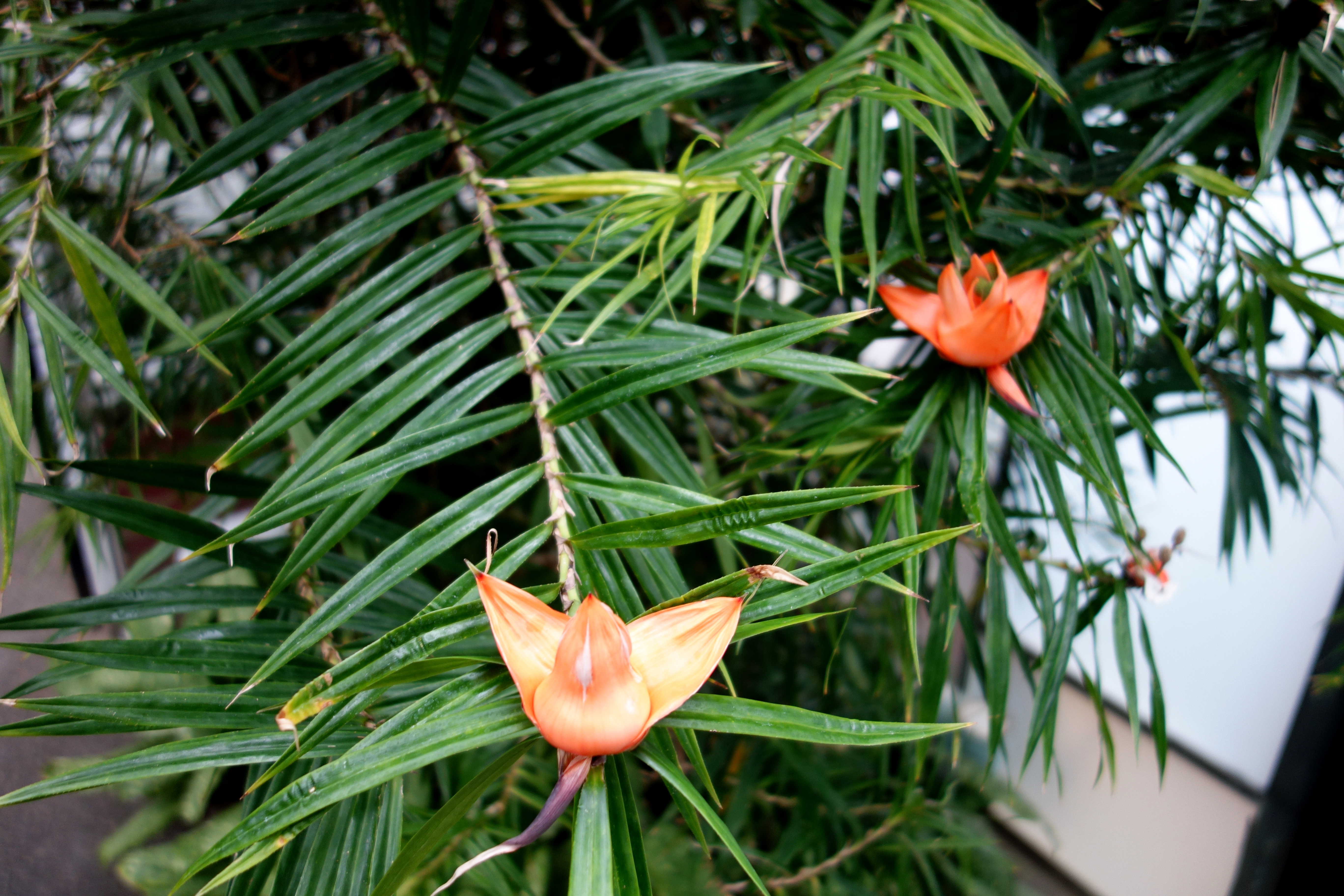 Botanical specimen in Longwood Gardens, 1001 Longwood Rd, Kennett Square, Pennsylvania, USA.